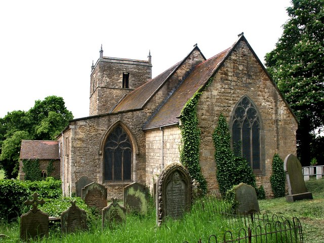 St Chad, Harpswell The church of St Chad partially dates back to the Norman era. It was restored in 1890-91. There are two medieval tombs inside. The church seats about 200.